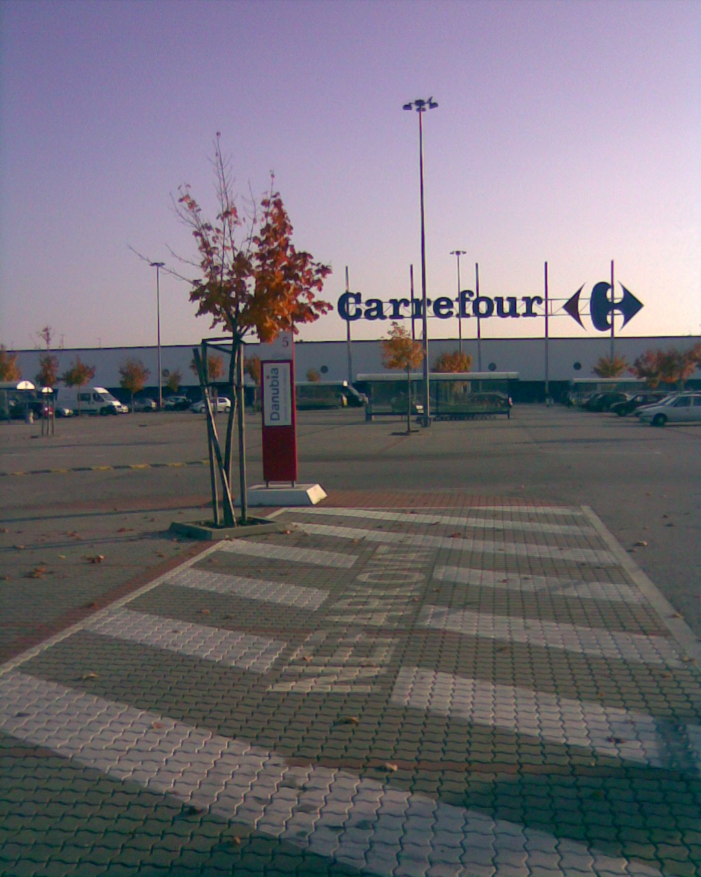 Danubia Shopping Center